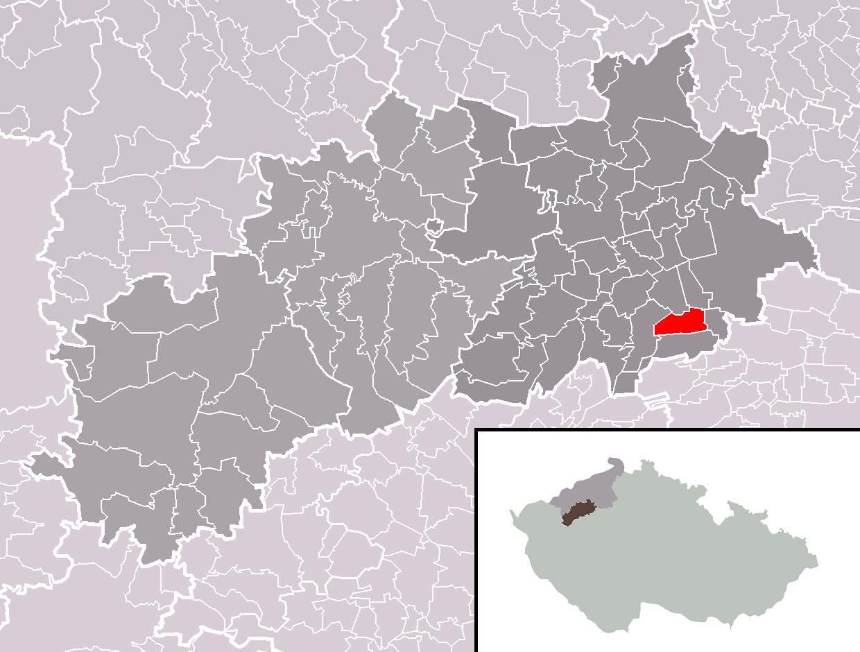 Location of Panenský Týnec market town within Louny District and administrative area of Louny as a Municipality with Extended Competence.